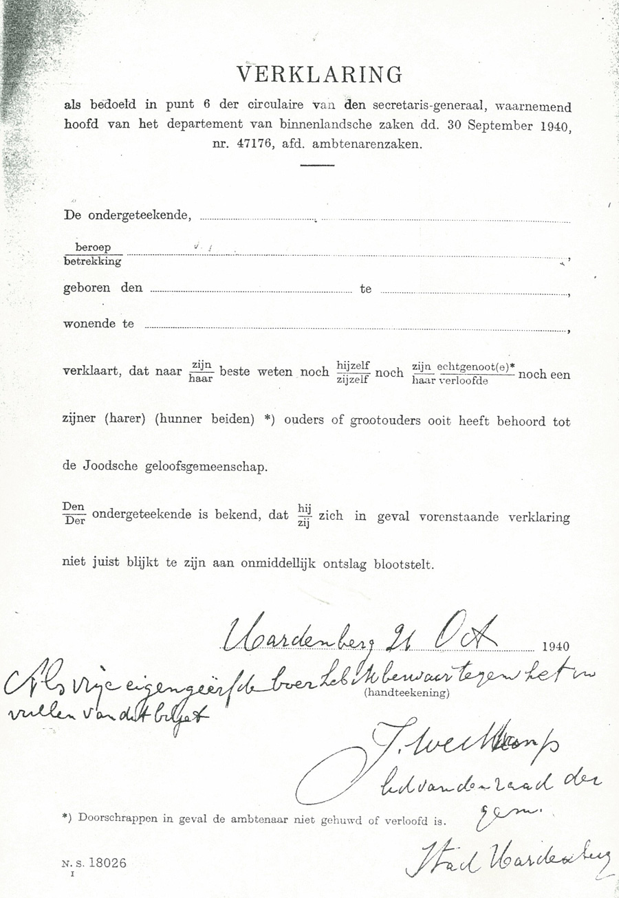 Weigering Arierverklaring te tekenen door Jan Weitkamp